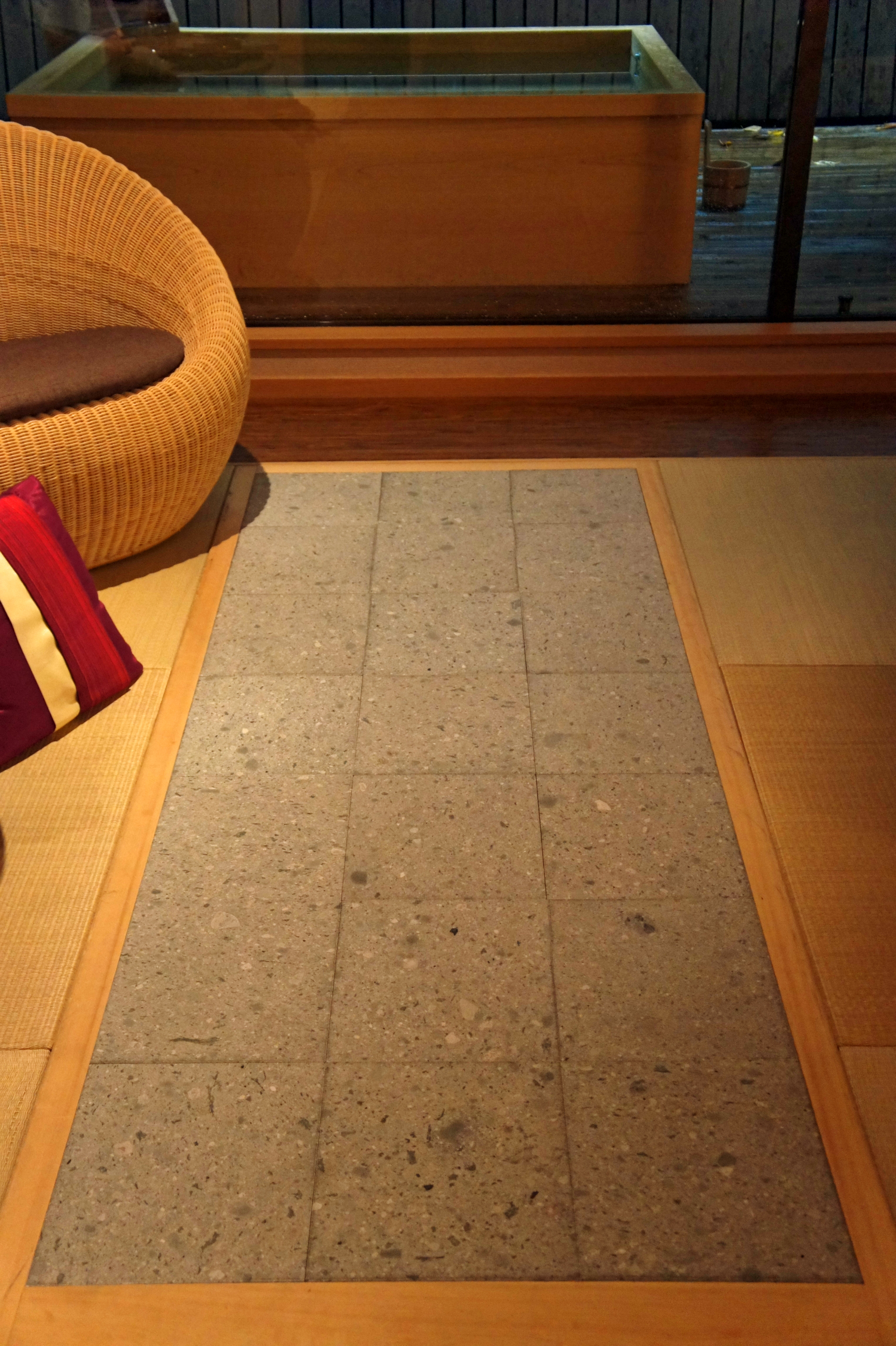 Kotohira-kadan in Kotohira, Kagawa prefecture, Japan.